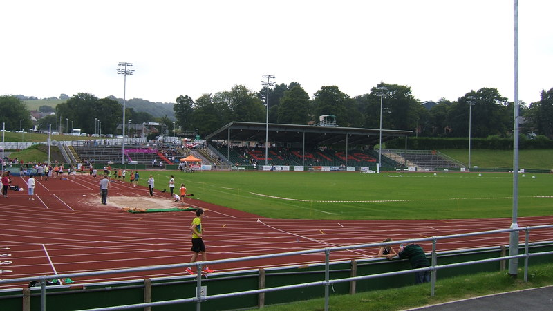 Eirias Park sports stadium